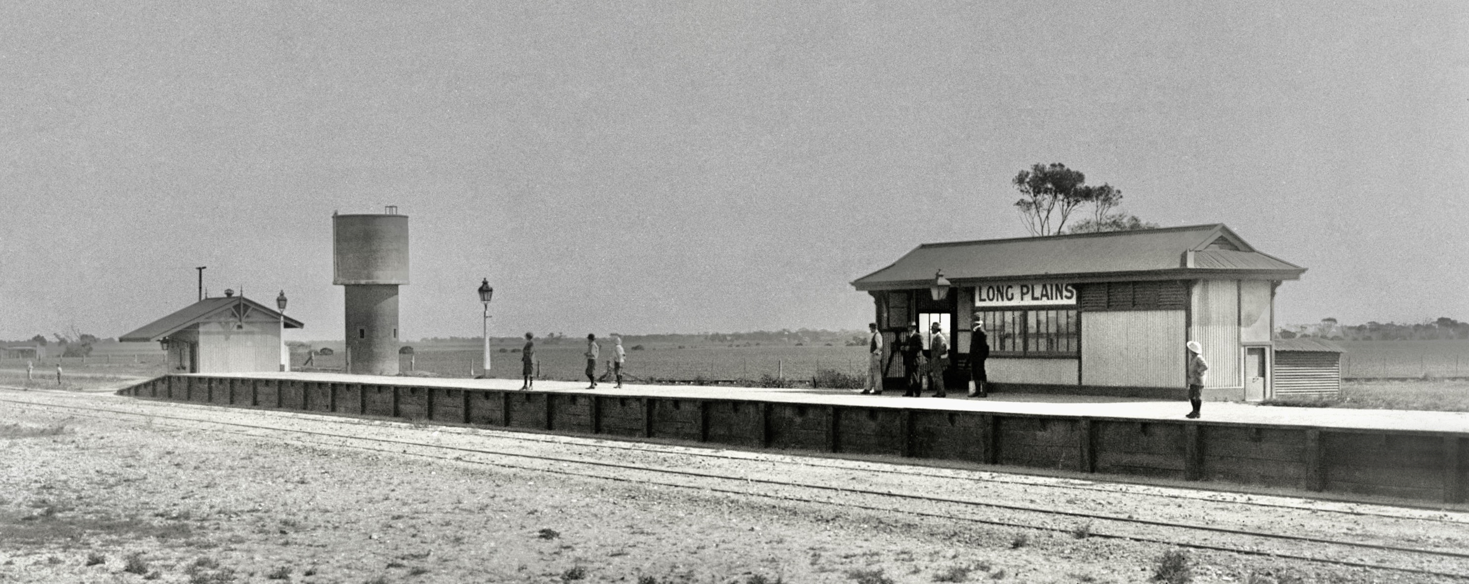 The Long Plains Railway Station opened on 20 April 1917. The government-owned South Australian Railways started to build the broad-gauge Salisbury–Long Plains line as a branch off the Main North line in 1915, completing it in April 1917. The line was extended from to Redhill from 1917 to 1925, and again from Redhill to Port Pirie in 1937. In the latter year, the Commonwealth Railways extended its standard gauge Trans-Australian Railway line from Port Augusta south to Port Pirie.